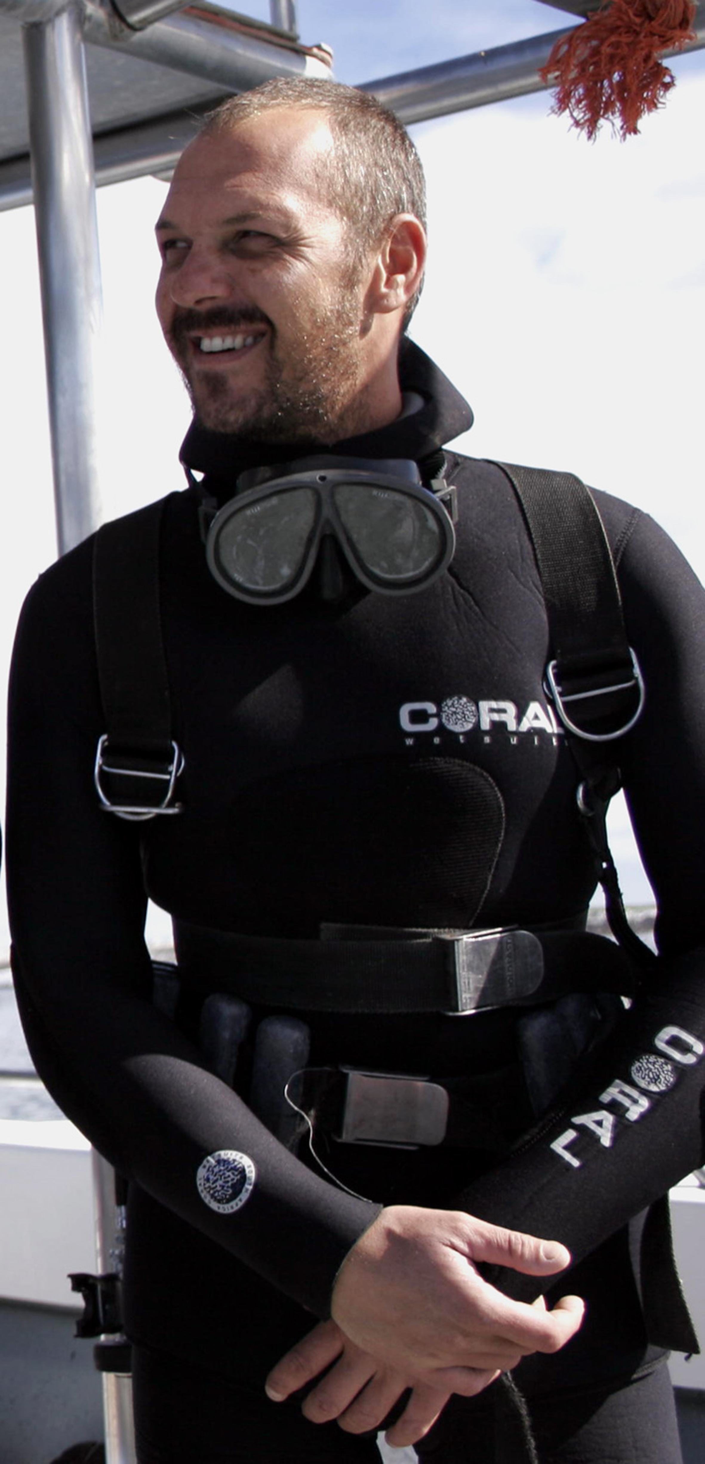 Mike Rutzen prepares to dive with a Great White Shark while filming a conservation documentary.